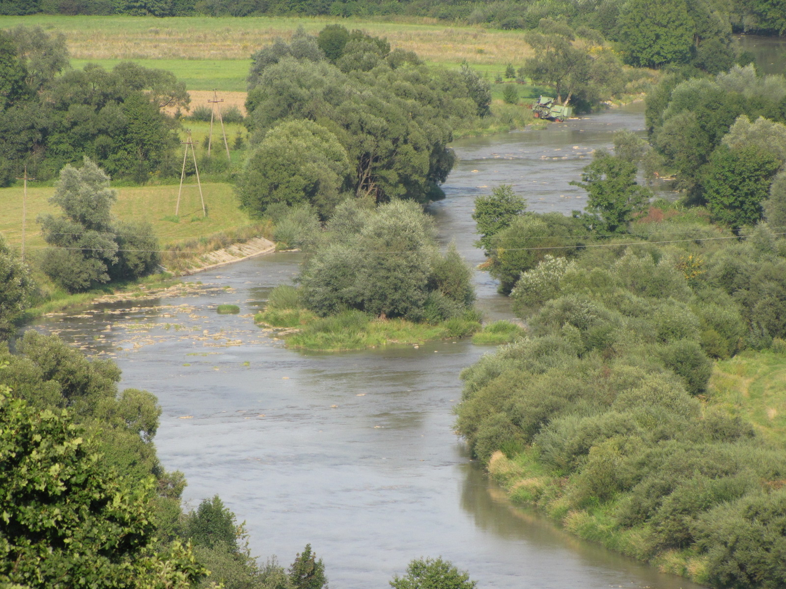 River Oslawa in Wielopole village